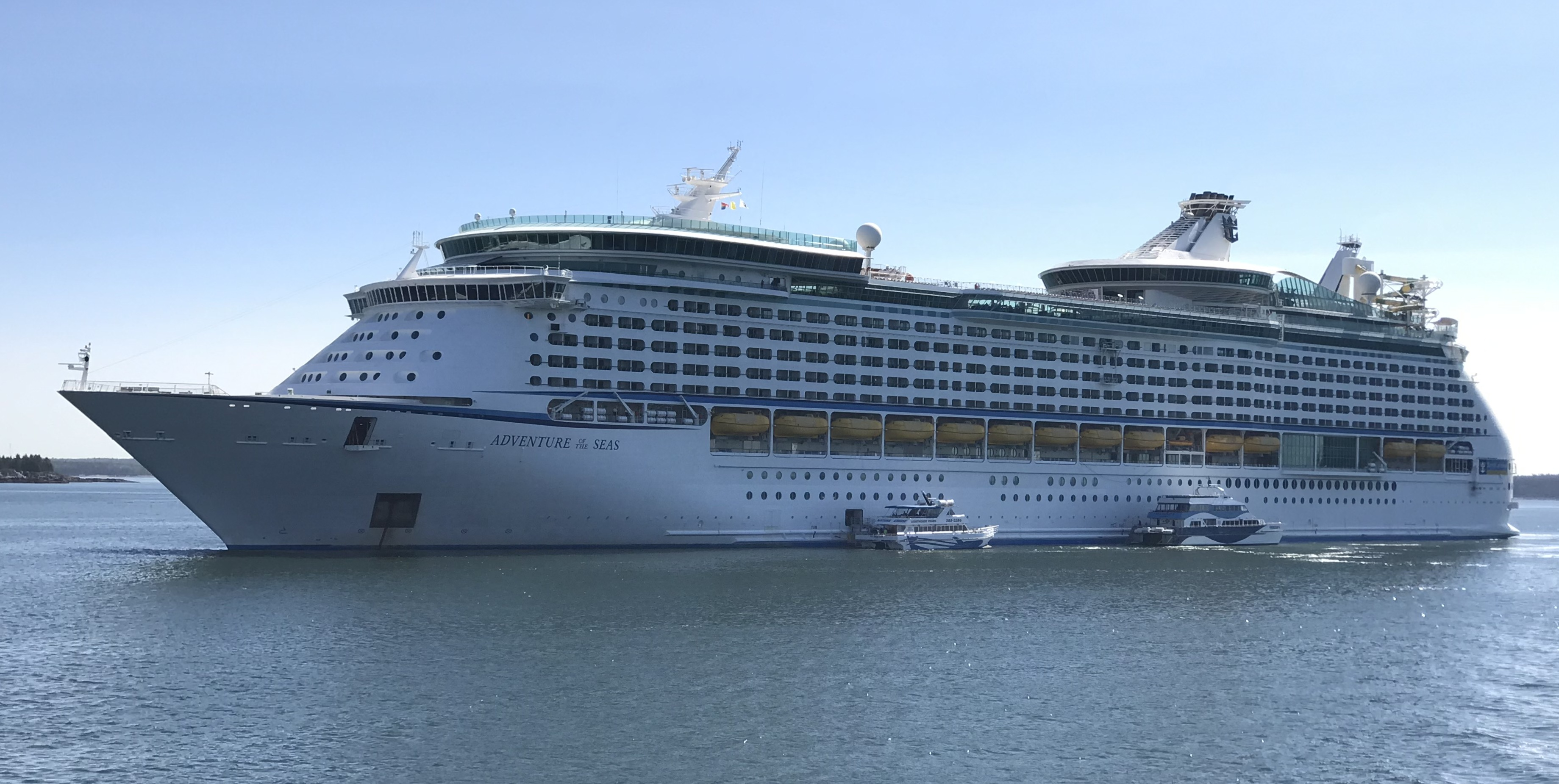 Adventure of the Seas anchored off Bar Harbor, Maine on June 24, 2019.